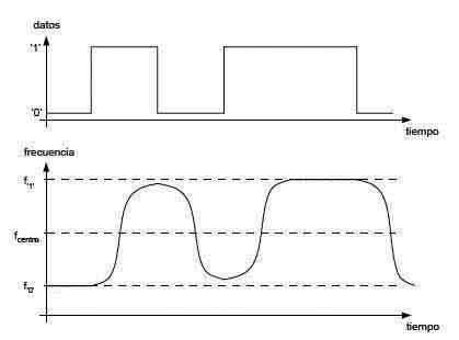 Gaussian filter for the transmission of data